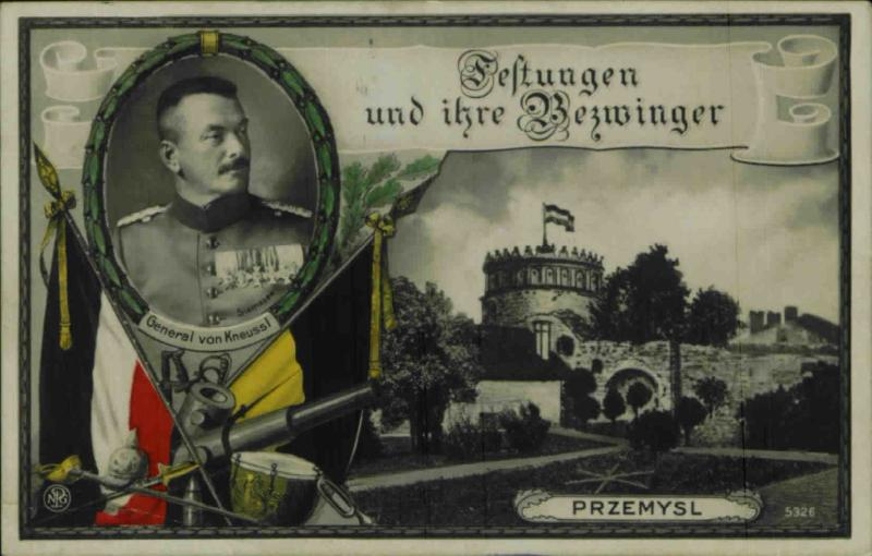 Przemyśl fortress